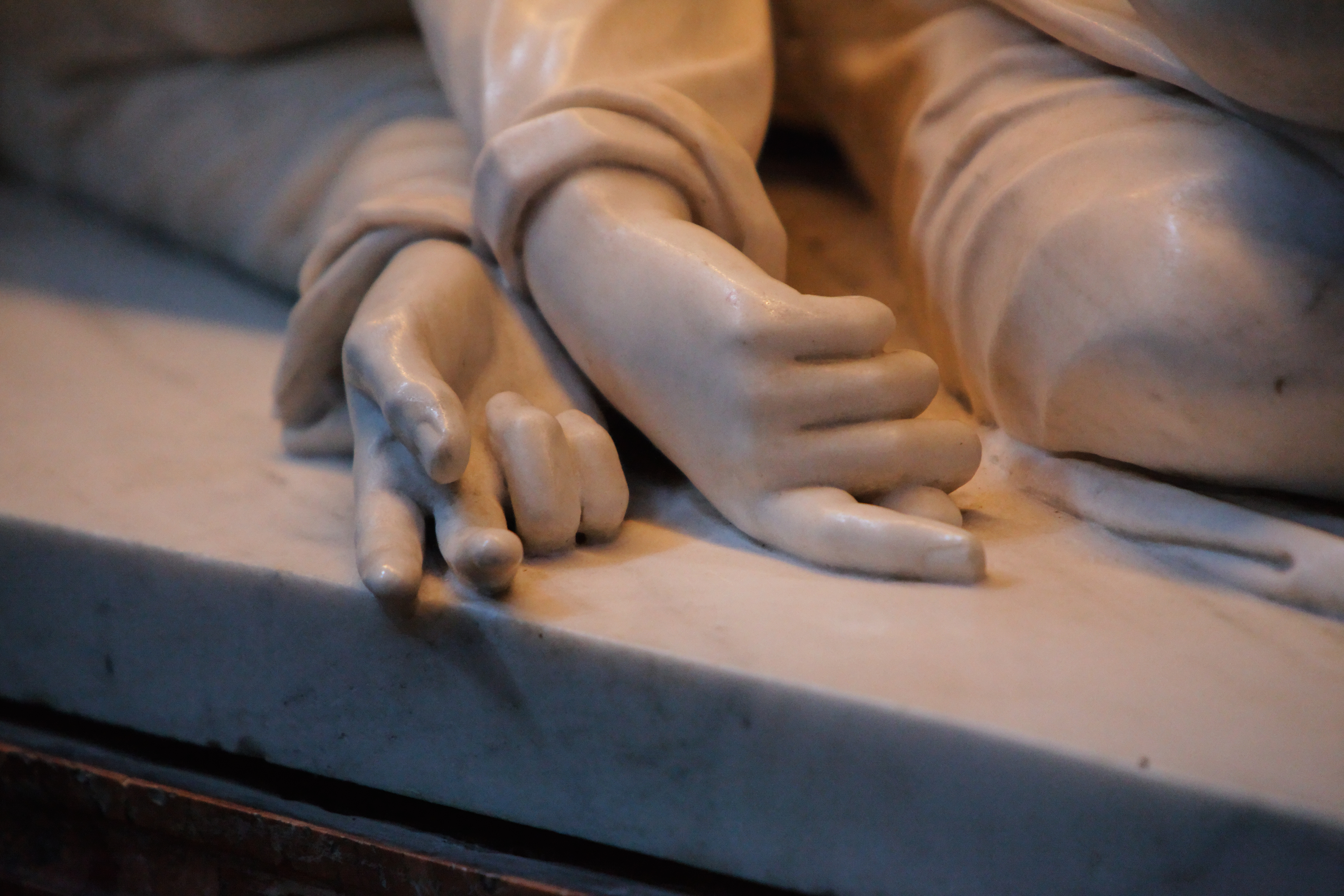 Detail of Stefano Maderno's sculpture into Basilica of Santa Cecilia in Trastevere, Rome.